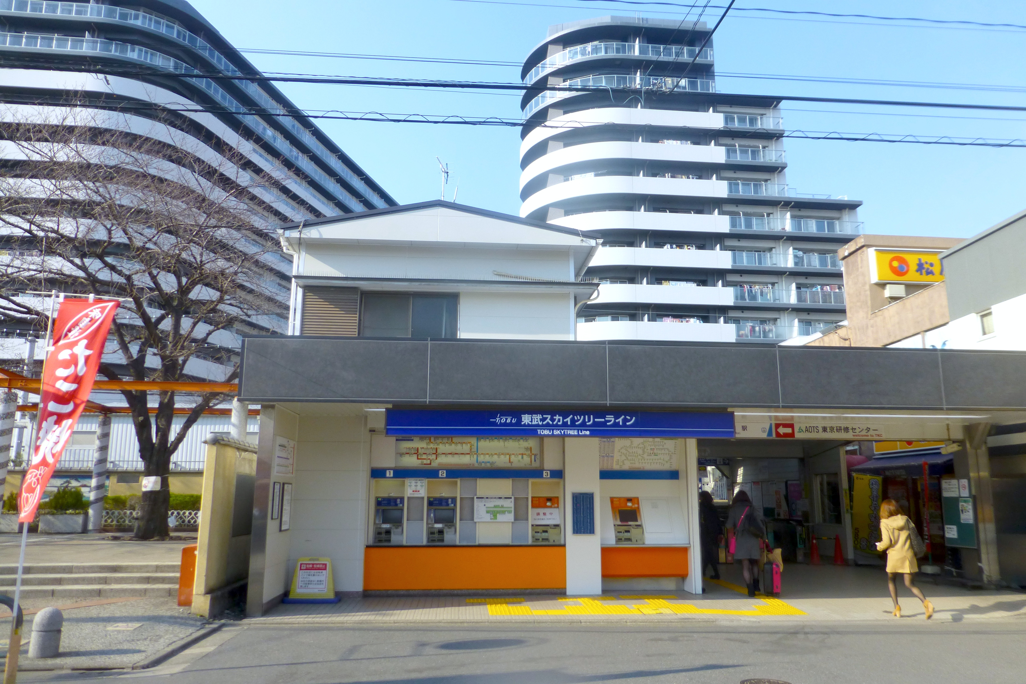 Ushida Station (牛田駅 Ushida-eki) is a railway station on the Tobu Skytree Line in Adachi, Tokyo, Japan, operated by the private railway operator Tobu Railway. This is the station exit/entrance.